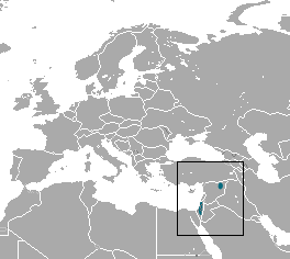 Katinka's Shrew (Crocidura katinka) range